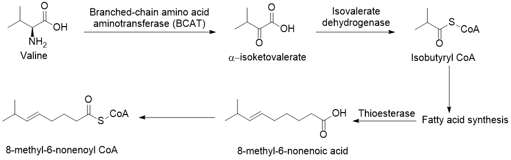 8-methyl-6-nonenoyl is produced from valine